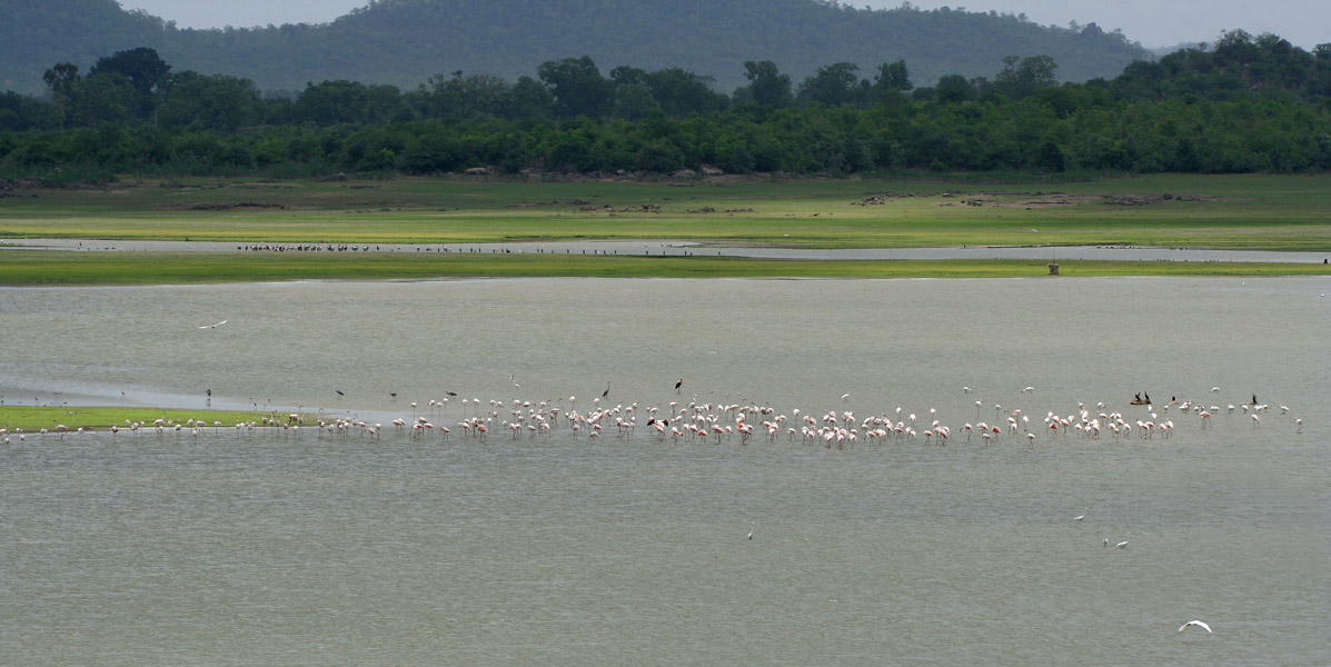 Greater Flamingo Phoenicopterus roseus - Sind: Lakka, Lakke jani, Hindi: Bog/Raaj hans, Sans: Bruhat balak, Bagg, Valiya rajahamsam, Bi: Charaj baggo, Ben: Kanmunthi, Kanthuti, Guj: Balo, Hunj, Moto hanj, Kutch: Hanj pakkhi, Mar: Rohit, Gnipankh, Pandav, Ta: Poonarai, Kizhi mooku naarai, Te: Pu konga, Samudrapu chiluka, Raja hamsa, Mal: Valiya poonara, Sinh: Siyak karaya- at Pocharam lake, Andhra Pradesh, India.